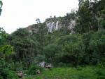 A beautiful place